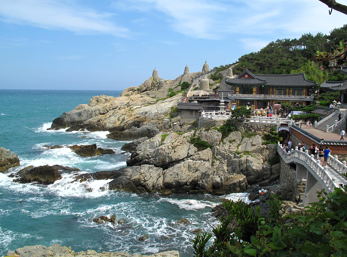 Coastal view of Yongungsa Temple, near Busan, Korea